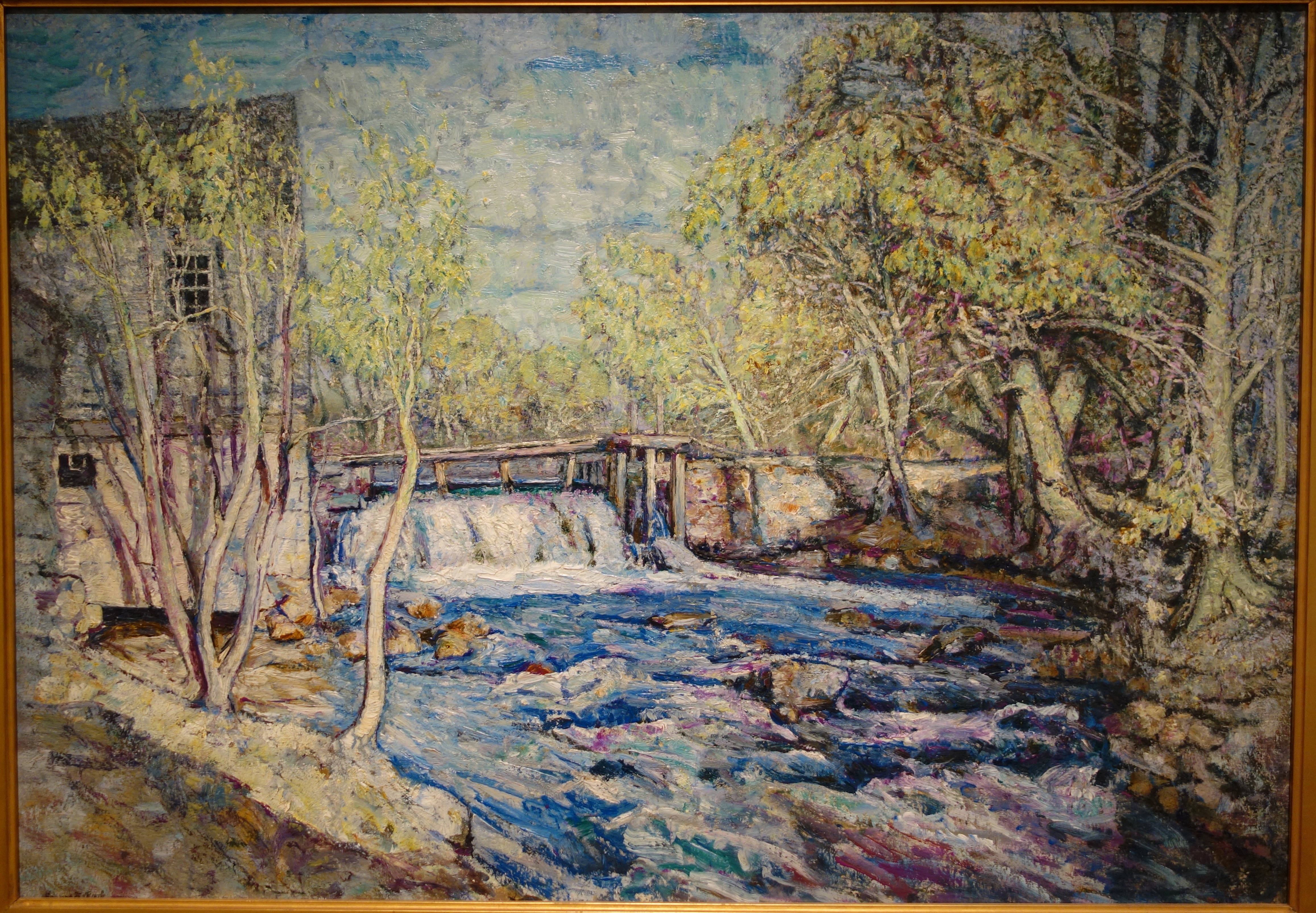 Exhibit in the New Britain Museum of American Art, New Britain, Connecticut, USA. This artwork is in the public domain because it was first published in the United States before 1923. The museum permitted photographs of this exhibit without restriction.